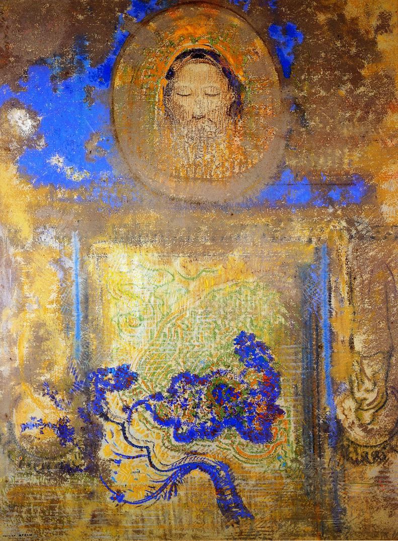 "Evocation" (also known as "Head of Christ" or "Inspiration from a Mosaic in Ravenna"), pastel, by the French artist Odilon Redon. Undated. Private collection. Image courtesy of The Athenaeum.